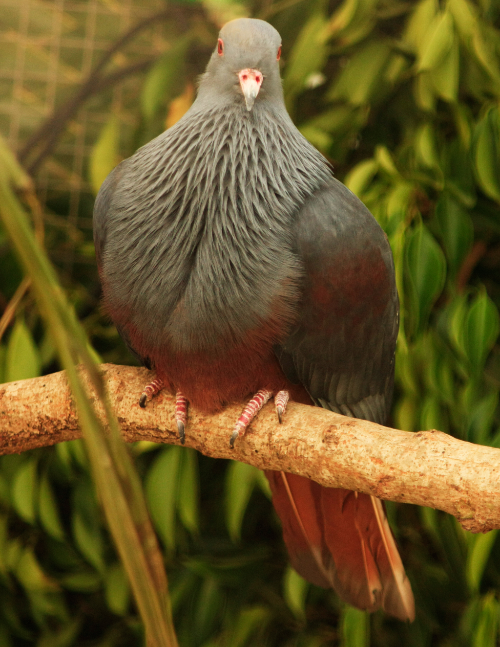 Notou of new caledonia